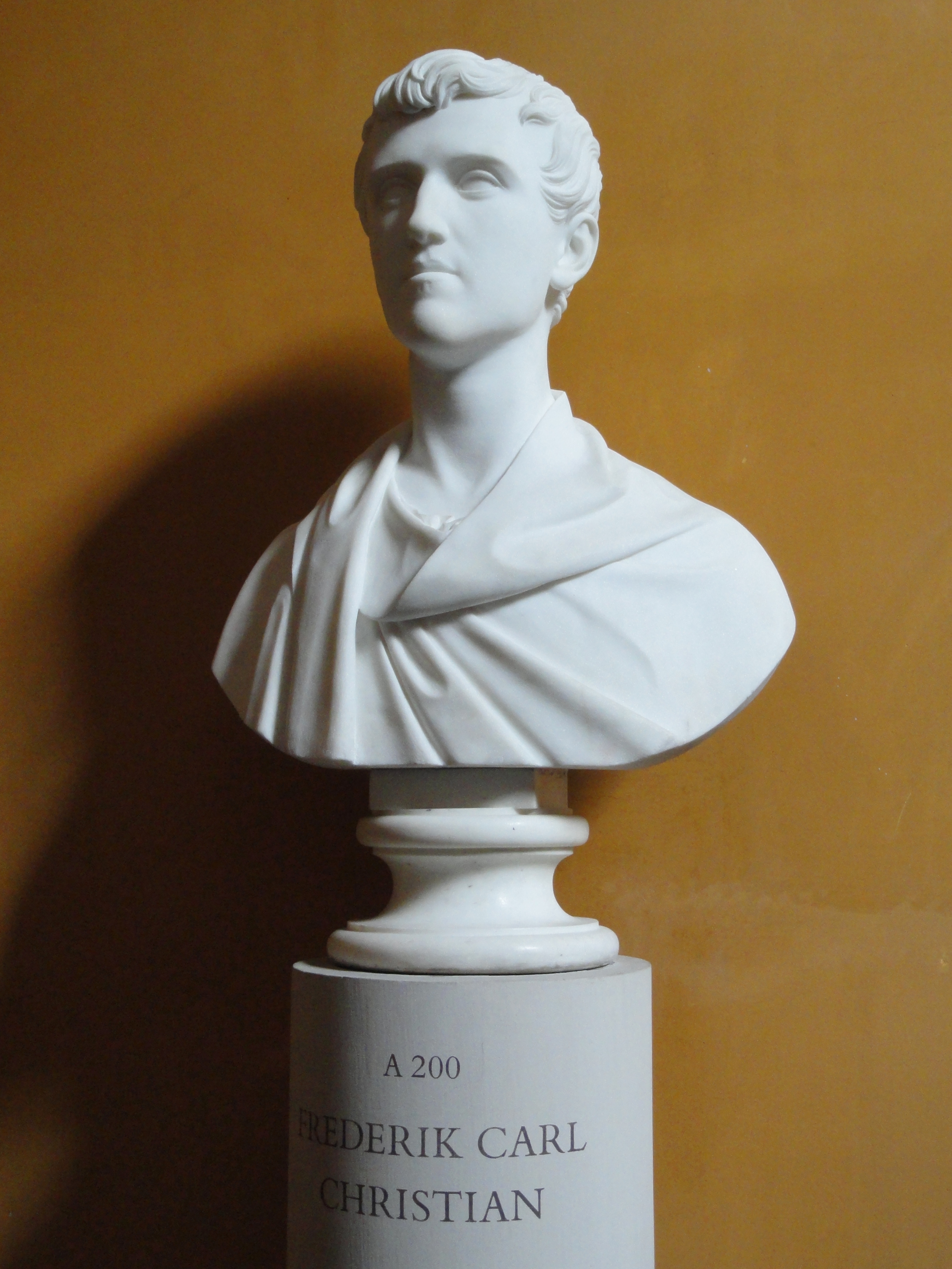 Sculpture in Thorvaldsens Museum, Copenhagen, Denmark. Sculptor: Bertel Thorvaldsen (c. 1770-1844). This artwork is now in the public domain because the artist died more than 70 years ago.